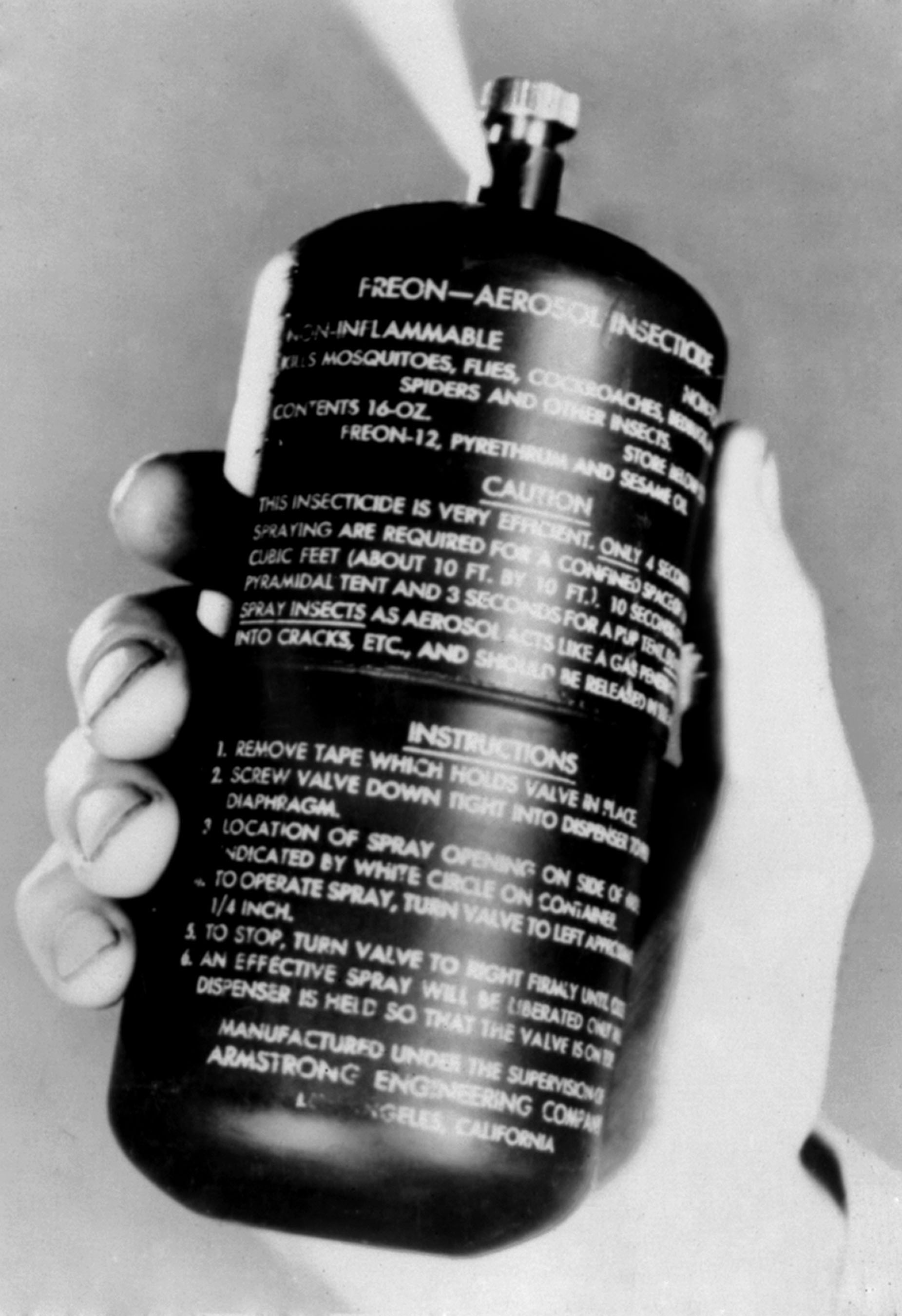 Aerosol spray canister invented by USDA researchers. (identified as image: D200-2) USDA researchers Lyle Goodhue and William Sullivan invented the aerosol spray canister, dubbed the “bug bomb,” to dispense insecticides. The design, patented in 1943, is the ancestor of many popular commercial spray products. Pressurized by liquefied gas, which gave it propellant qualities, the small, portable can enabled soldiers to defend against malaria-carrying bugs by spraying inside tents during World War II. Propellants used in these older aerosol cans have since been replaced with environmentally friendly ones.